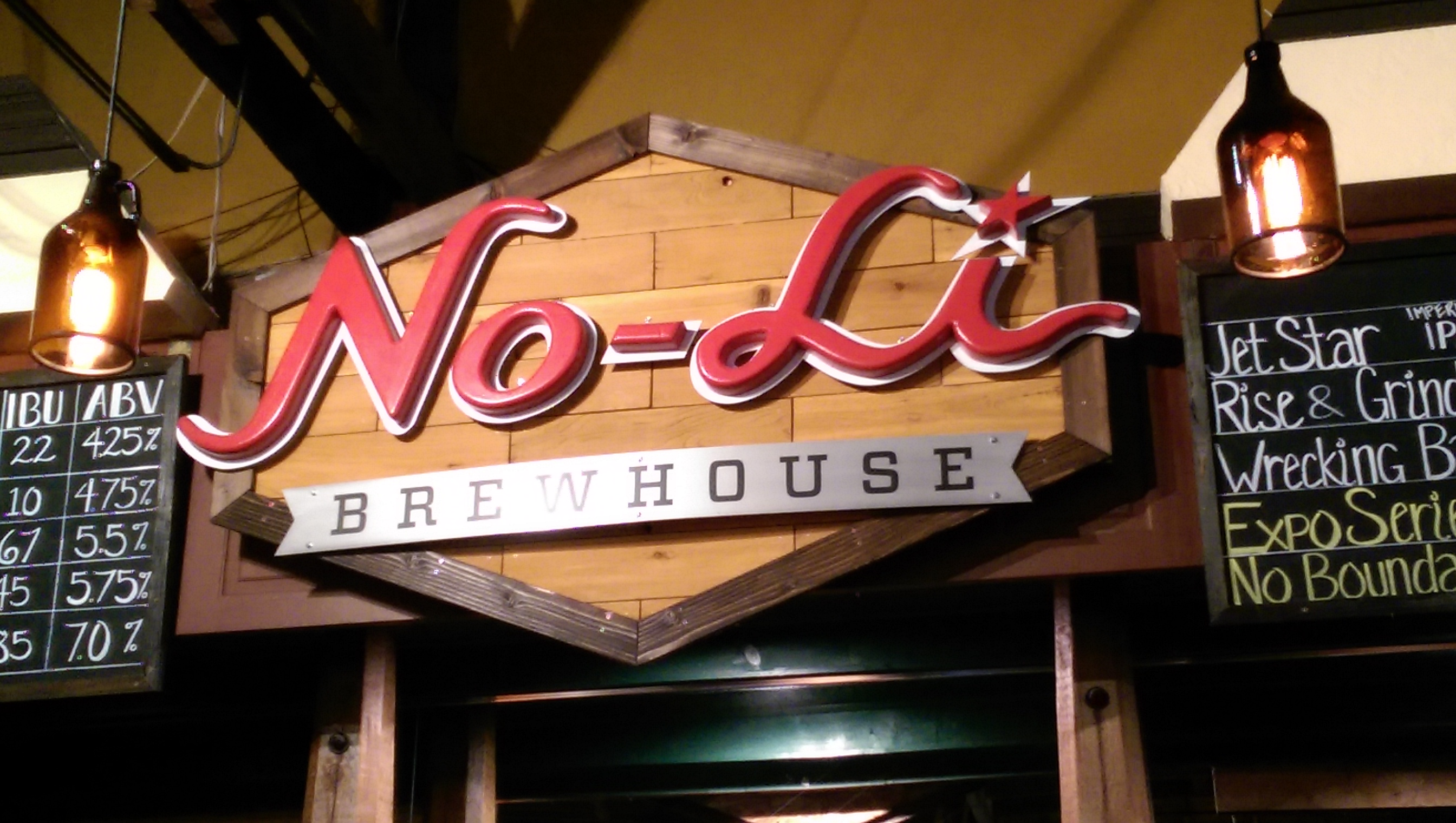 Photograph of a sign inside the No-Li Brewhouse in Spokane, Washington.